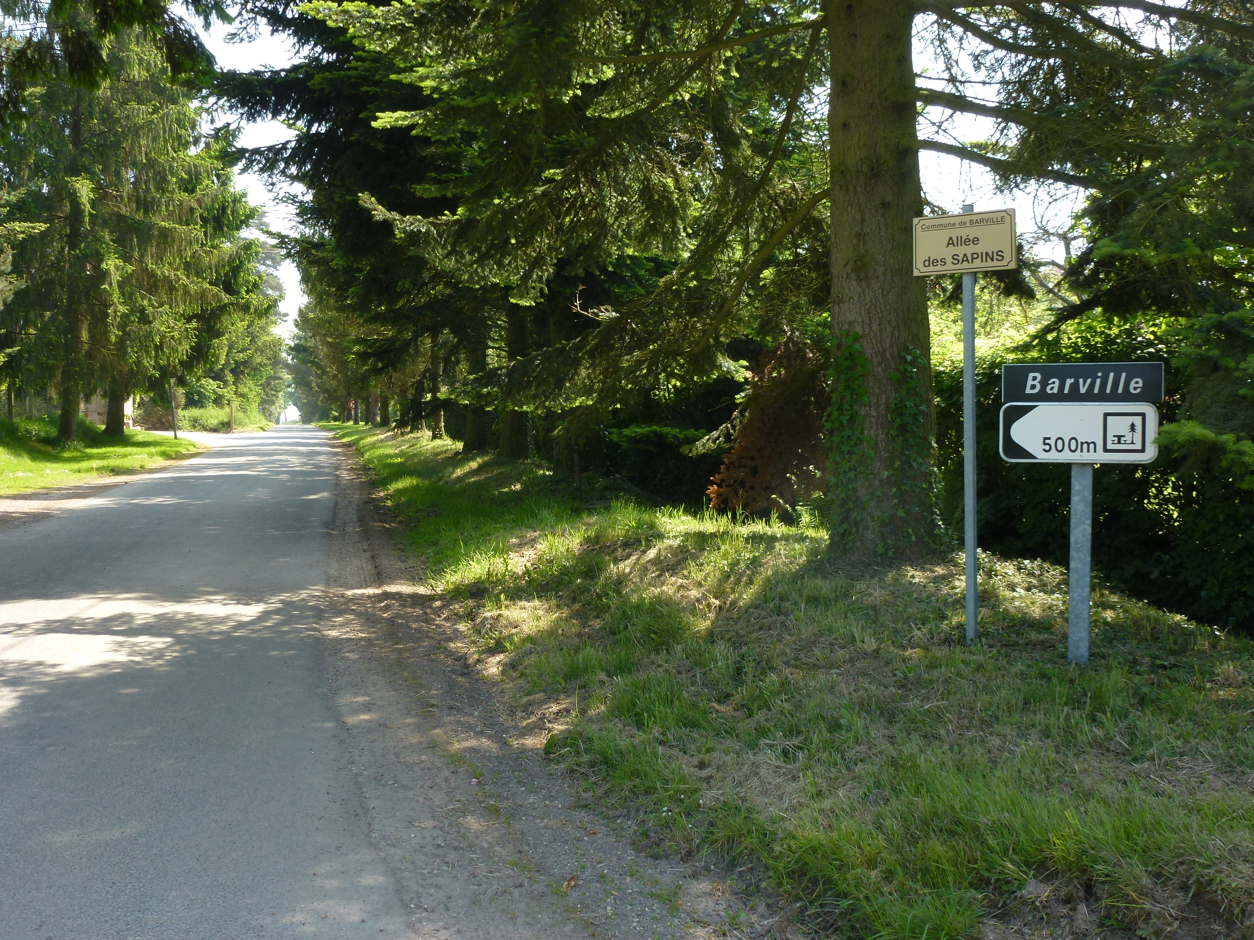 Barville (Eure, Fr) city limit sign